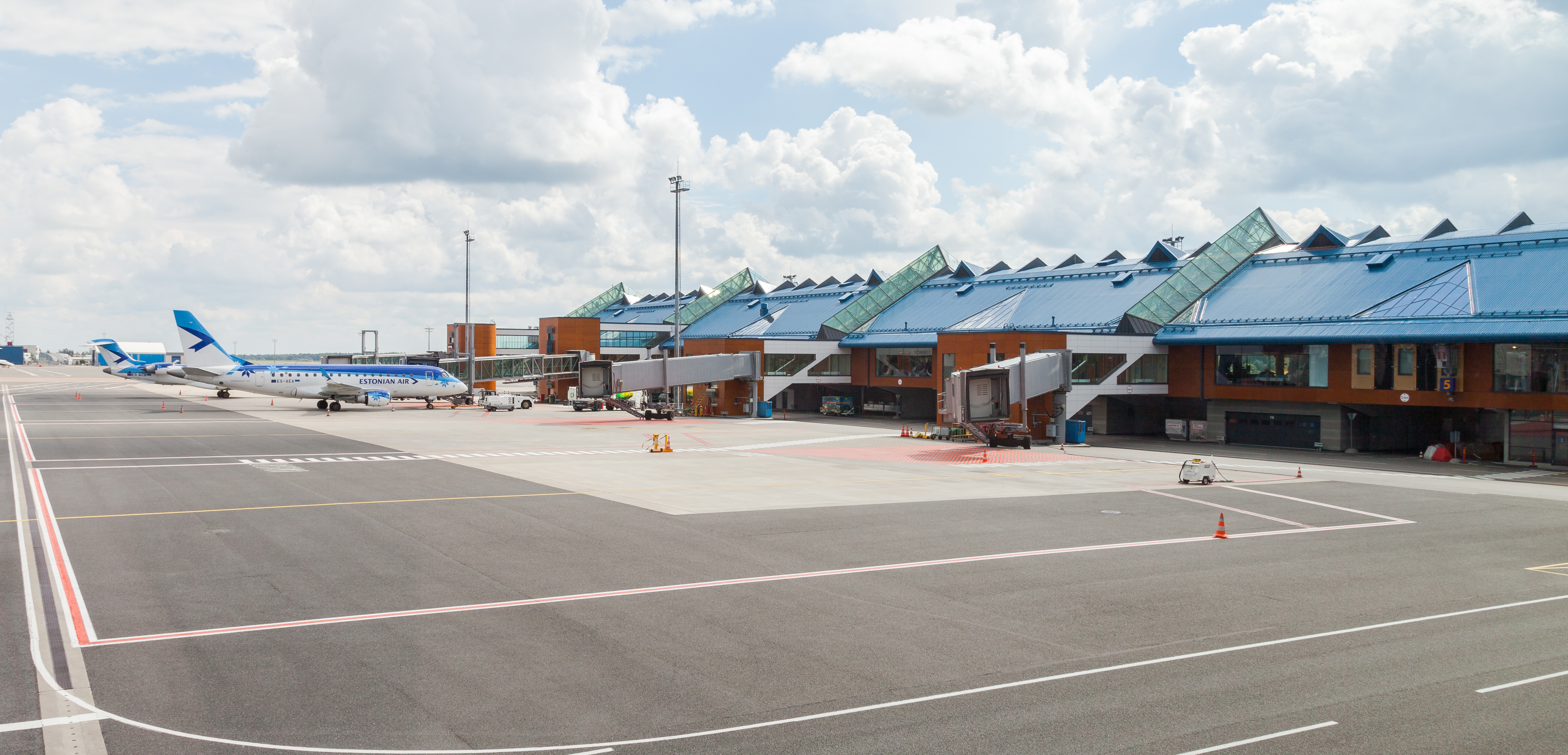 International Tallinn Airport, Estonia